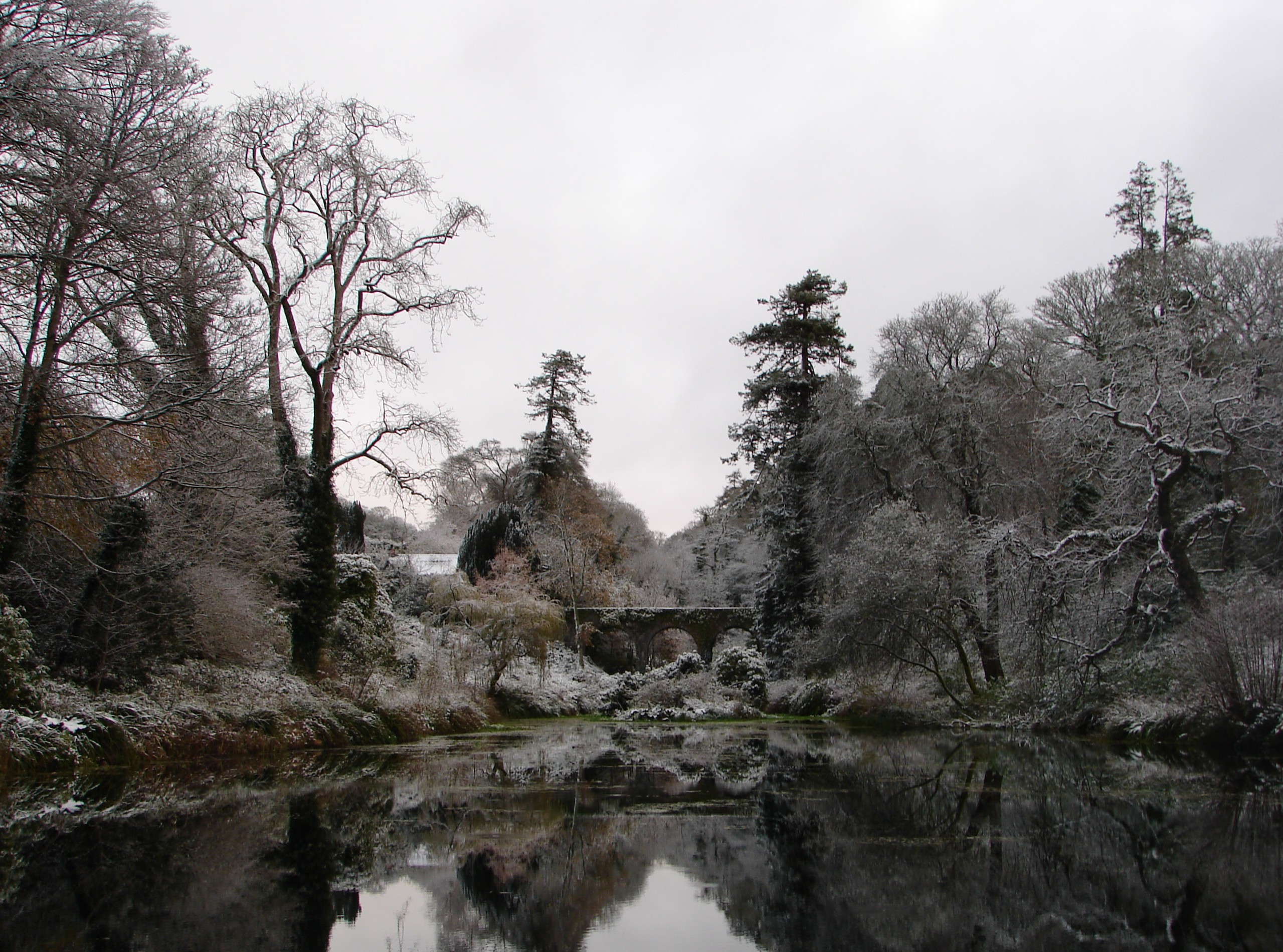 The Chapel Lake at Glenstal